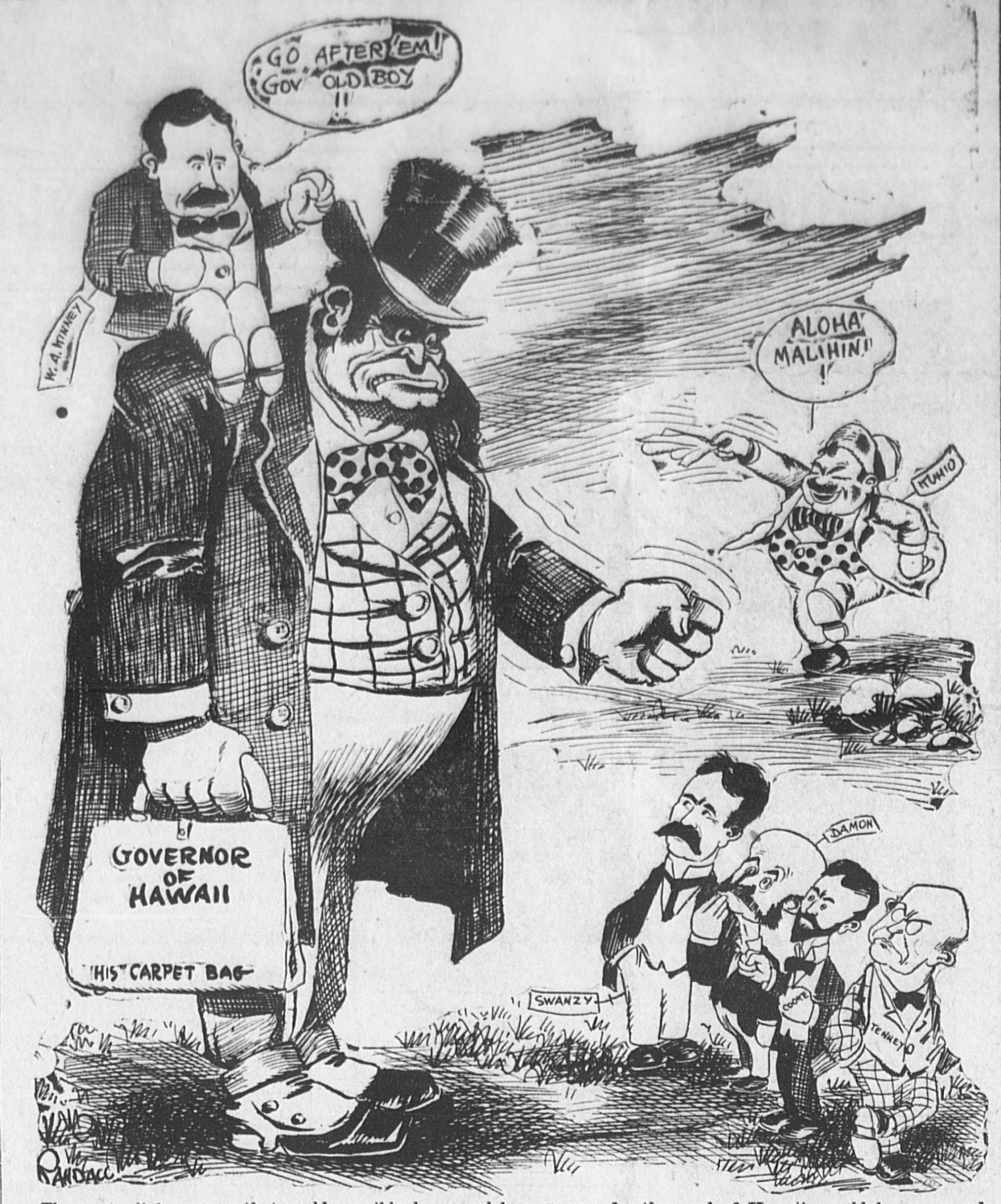 Political cartoon attacking the suggestion of William Ansel Kinney of appointing a governor to the Territory of Hawaii in 1912 outside of the plantation interests.